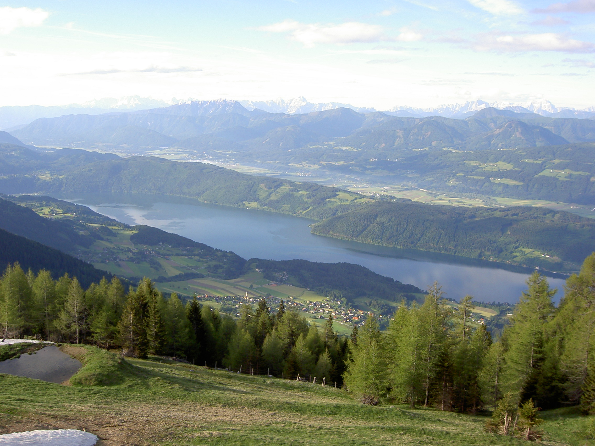 Lake Millstatt near Spittal an der Drau / Carinthia / Austria / EU.